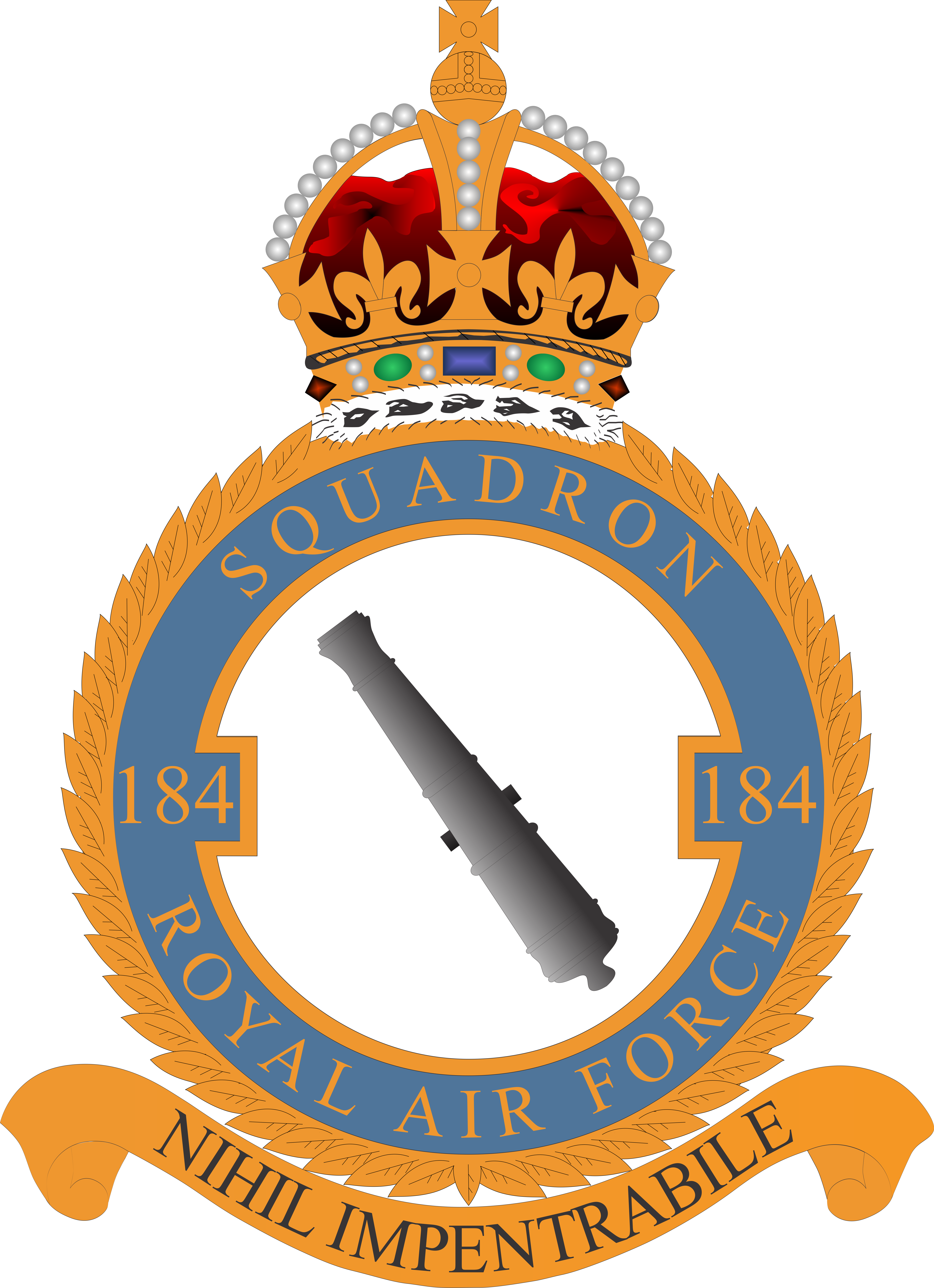 Cannon Barrel with the Kings crown, created with Corel Draw